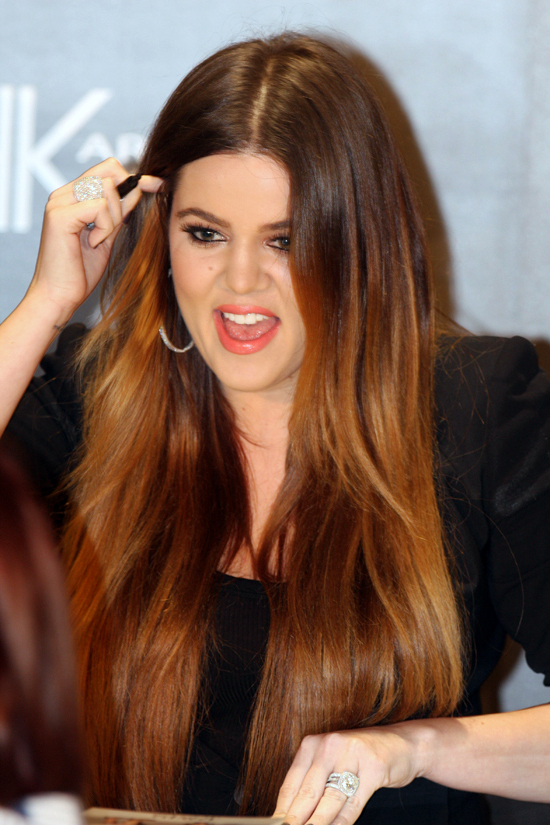 Khloe Kardashian at David Jones, Sydney - November 2011